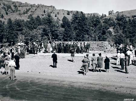 Dedication of roadside memorial to the victims of the Blackwater fire of 1937